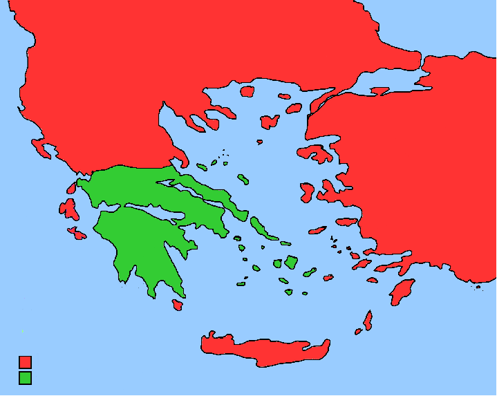 Greece in 1832 (in green)